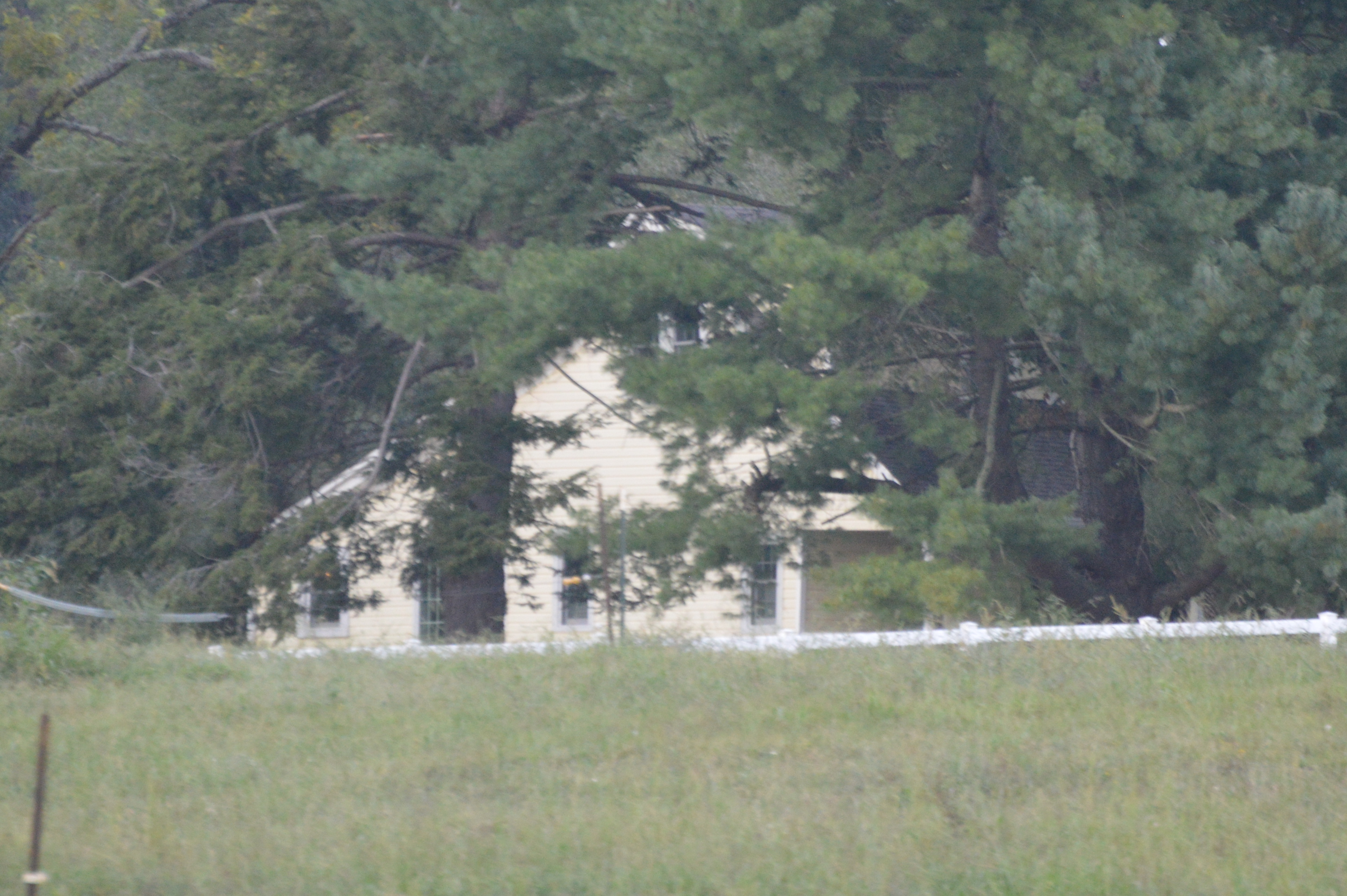 Distant view of the Hinton Rowan Helper House, located along U.S. Route 64 west of Mocksville in Davie County, North Carolina, United States. Built in 1829 and the home of controversial author Hinton Rowan Helper, it has been designated a National Historic Landmark.